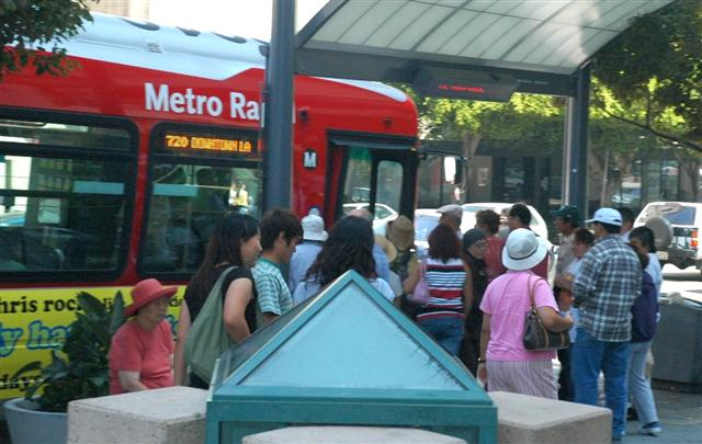 Description: people getting on the Metro 720 Wilshire Rapid Bus in Wilshire Center / Koreatown in Los Angeles Date: 9/2/05 Location: Los Angeles, CA Author: David Liu